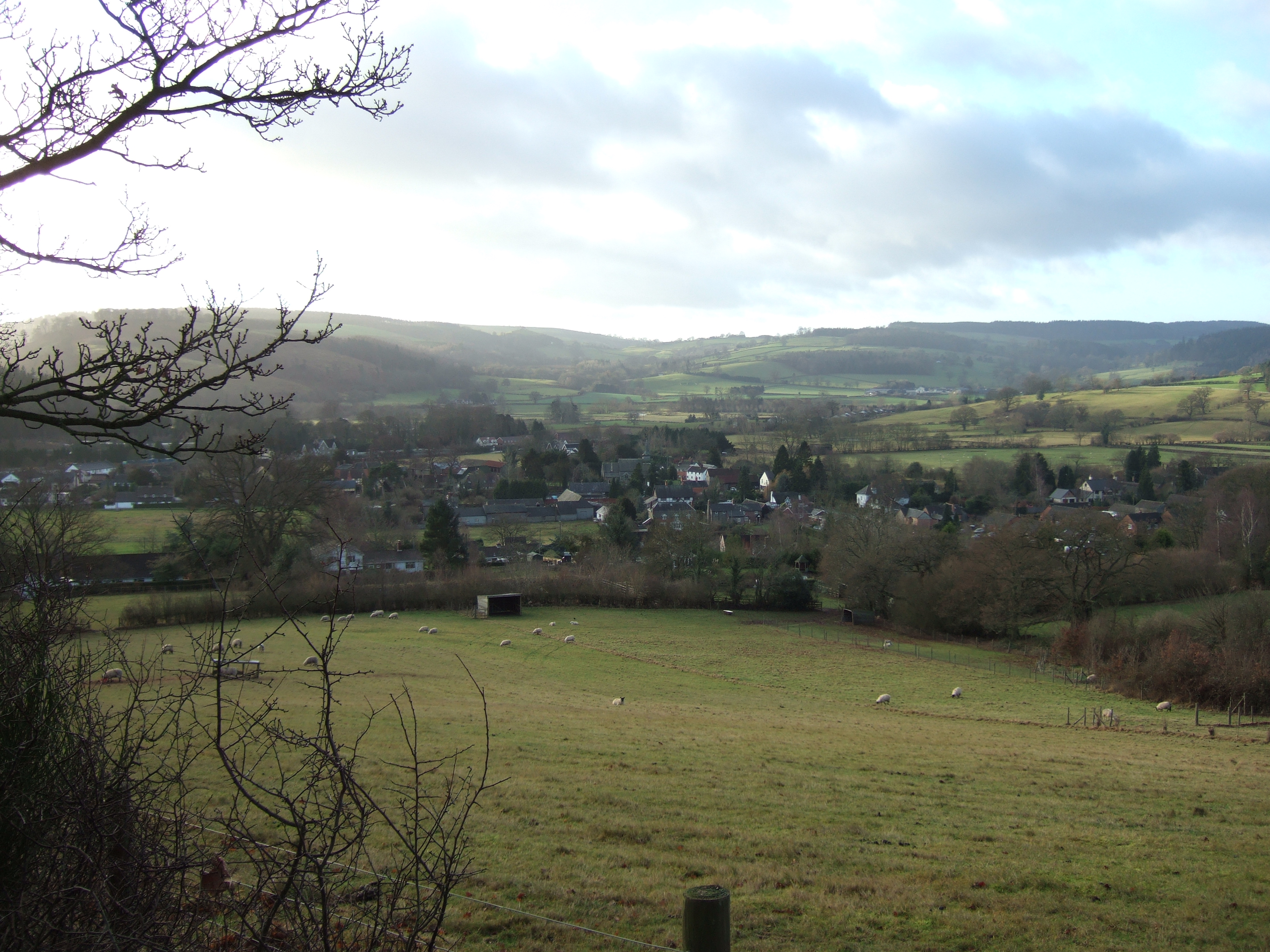 Bucknell, Shropshire from the northwest